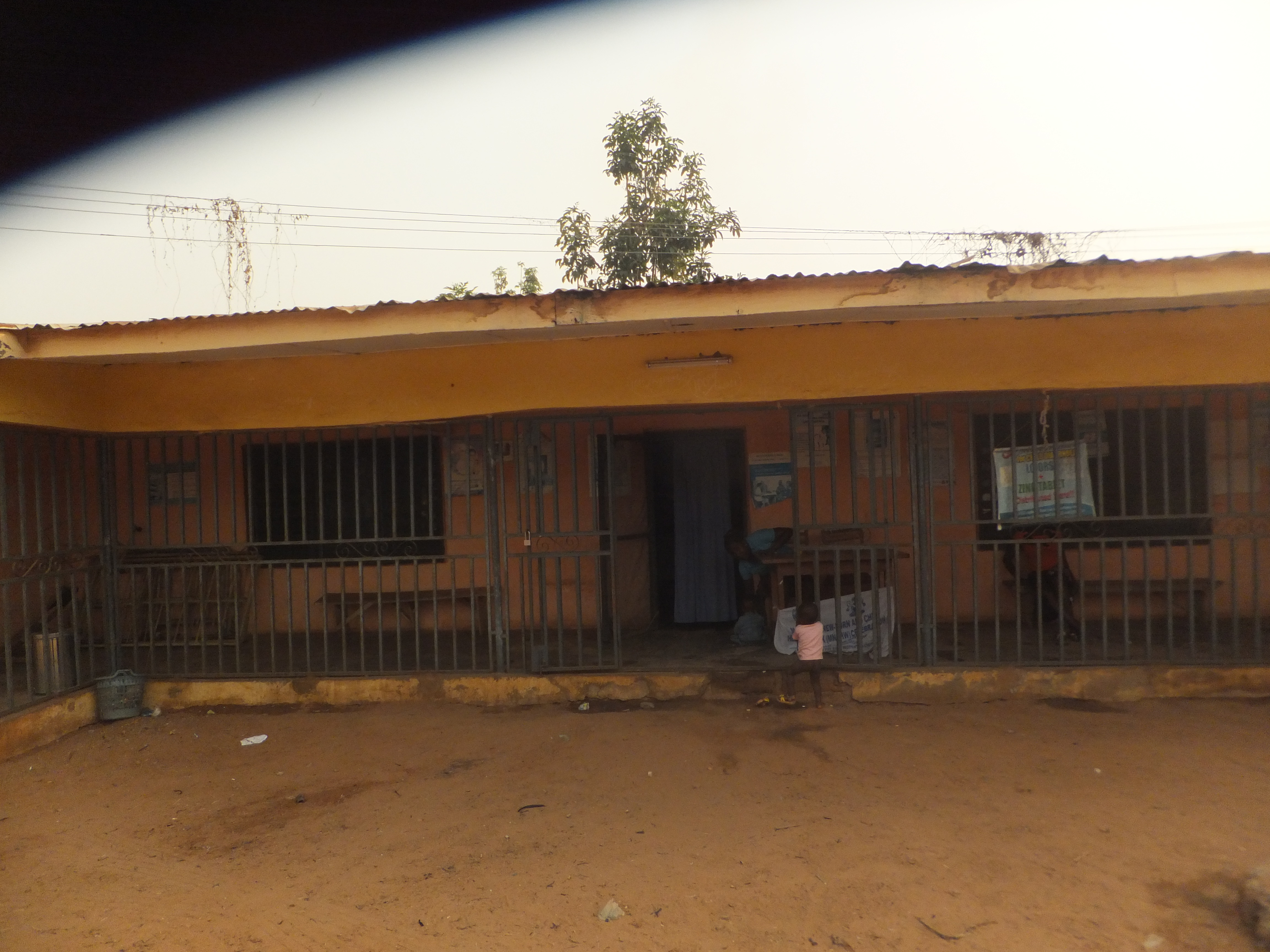 Referal Health Center Anaku